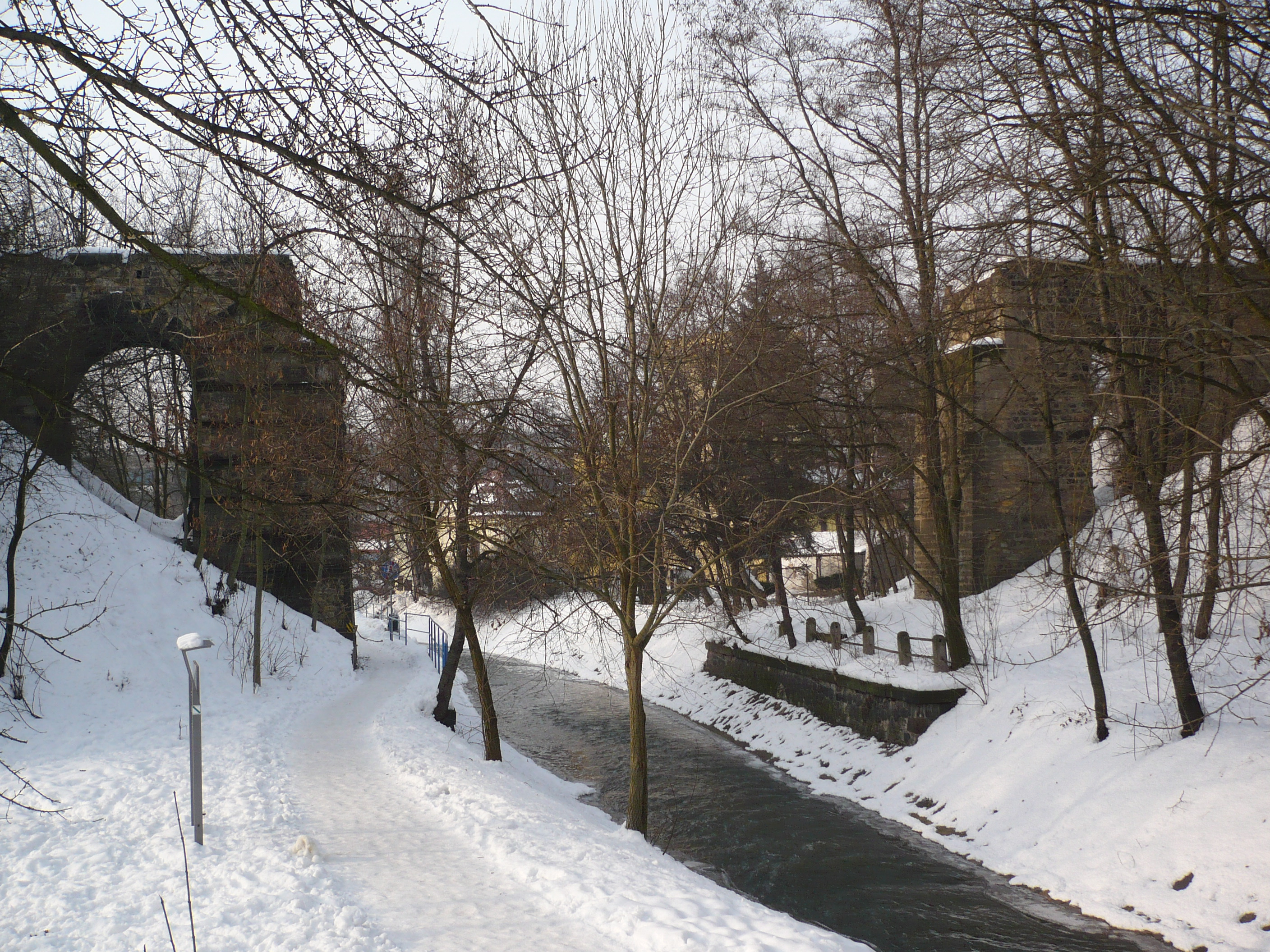 Railway bridge over Rokytka (ÖNWB)